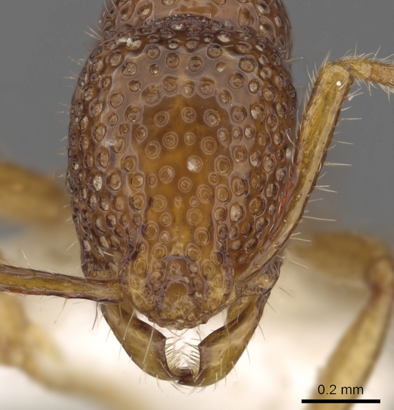 Close-up view of the Tyrannomyrmex rex holotype worker head. Collected on 01 Oct 1994 in Pasoh Forest Reserve, Peninsular Malaysia Natural History Museum, London, England BMNH specimen BMNH(E)1014421 Antcat specimen ANTC20225